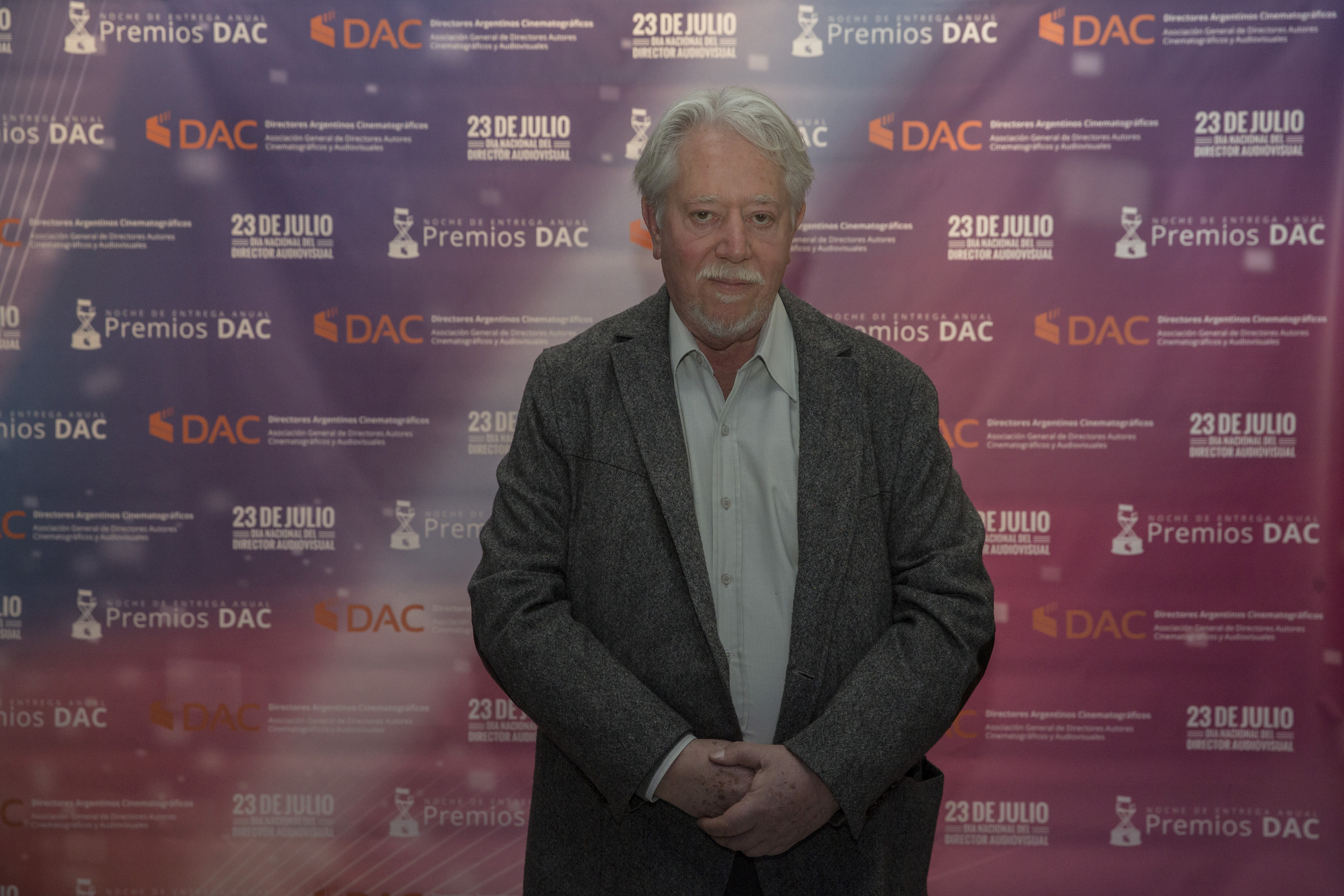 Luis Puenzo at the celebration of Film Director's Day. Buenos Aires, Argentina, 22 July 2016. Picture by Romina Santarellli / Ministerio de Cultura de la Nacion.